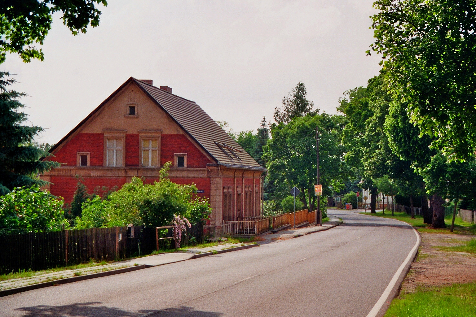 Main street (Hauptstraße/B 320) of Jamlitz, Amt Lieberose/Oberspreewald, Landkreis Dahme-Spreewald, Brandenburg, Germany.